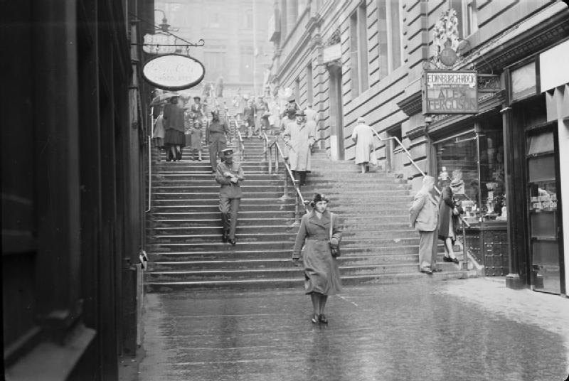 Edinburgh, Scotland in Wartime, 1943 Service personnel and civilians go about their daily business in Edinburgh. Many people can be seen climbing up and walking down Waverley Steps, including a couple looking in the window of Alex Ferguson's Edinburgh Rock. P S McColl Chocolates and the Steps Cafe can be seen on the left of the photograph.